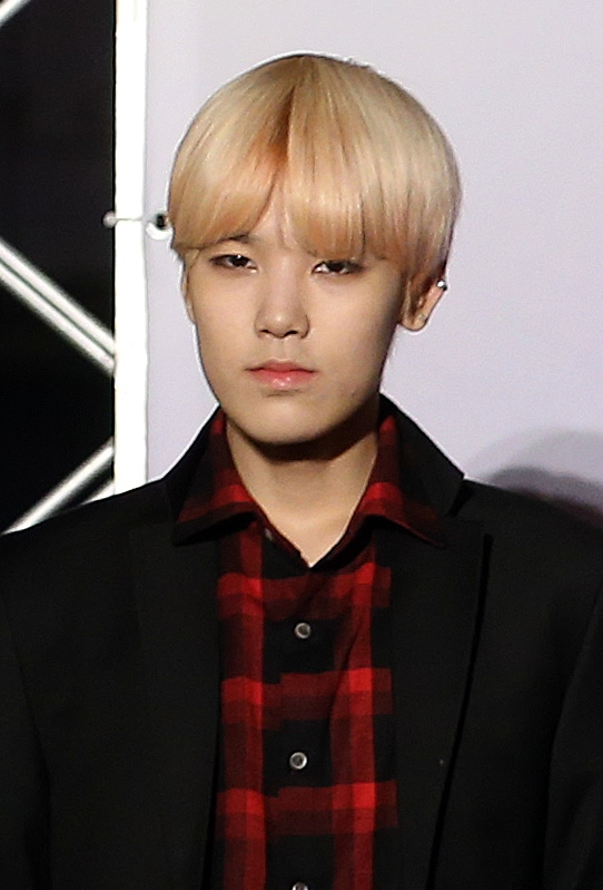 2013 K-POP World Festival in ChangwonOctober 20, 2013Changwon-si, Gyengsangnam-doRelated ArticlesCheong Wa DaeK-Pop World Festival unites global fans World Festival unites global fans K-POP世界庆典” 用K-POP连结全世界 thế giới hội tụ tại “K-pop World Festival 2013” World Festival” bringt internationale Fans zusammen festival mondial de la K-Pop 2013 de haute volée World Festival объединяет фанатов со всего мира العالمي للبوب الكوري يوحد الجماهي of Culture, Sports and TourismKorean Culture and Information ( Han--------------2013 제3회 K-POP 월드페스티벌2013-10-20경상남도, 창원시문화체육관광부해외문화홍보원코리아넷전한